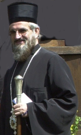 Image of His Grace Bishop Jovan of Šumadija.